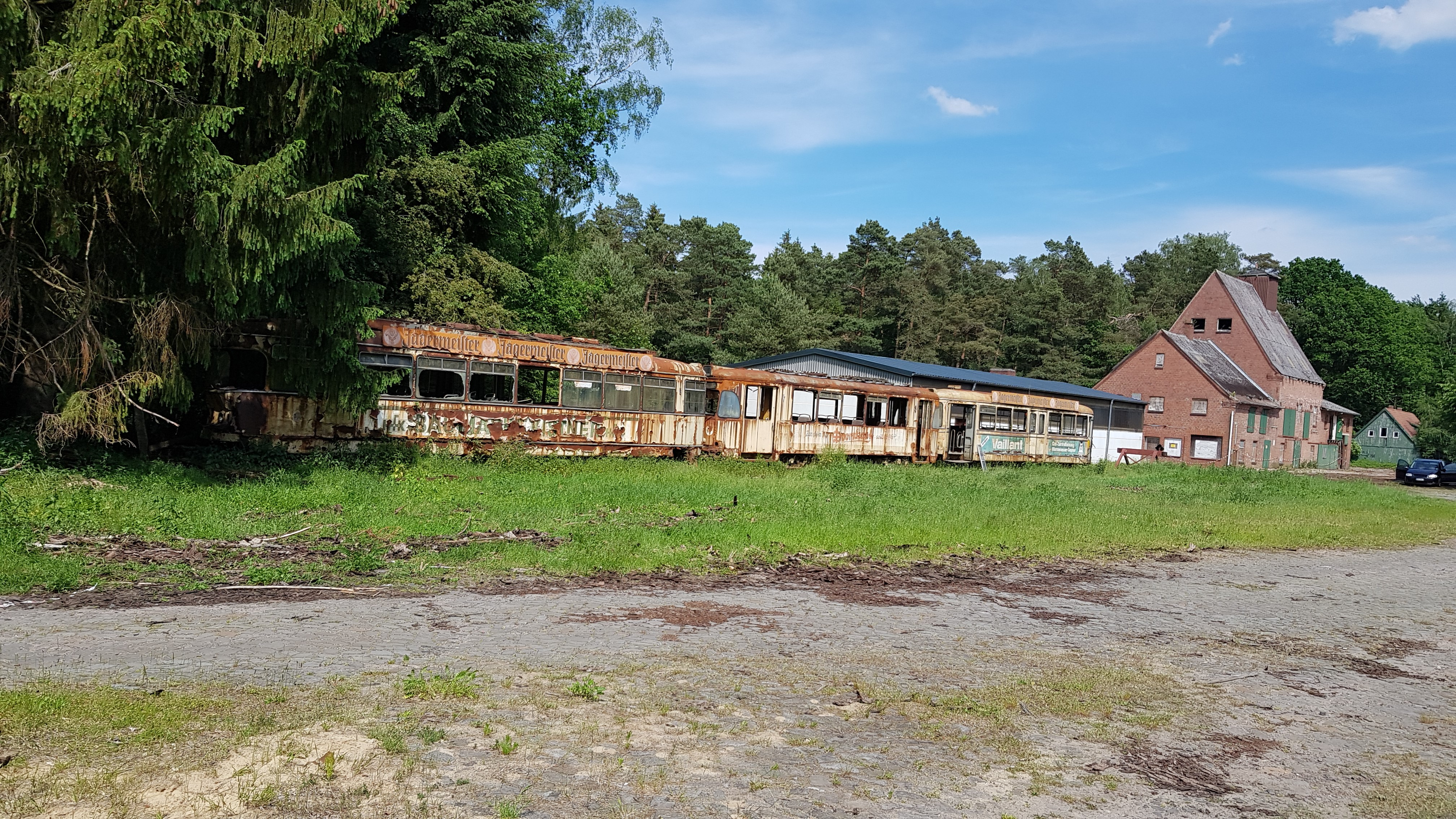 old tram from Bremerhaven stored at Heinschenwalde station